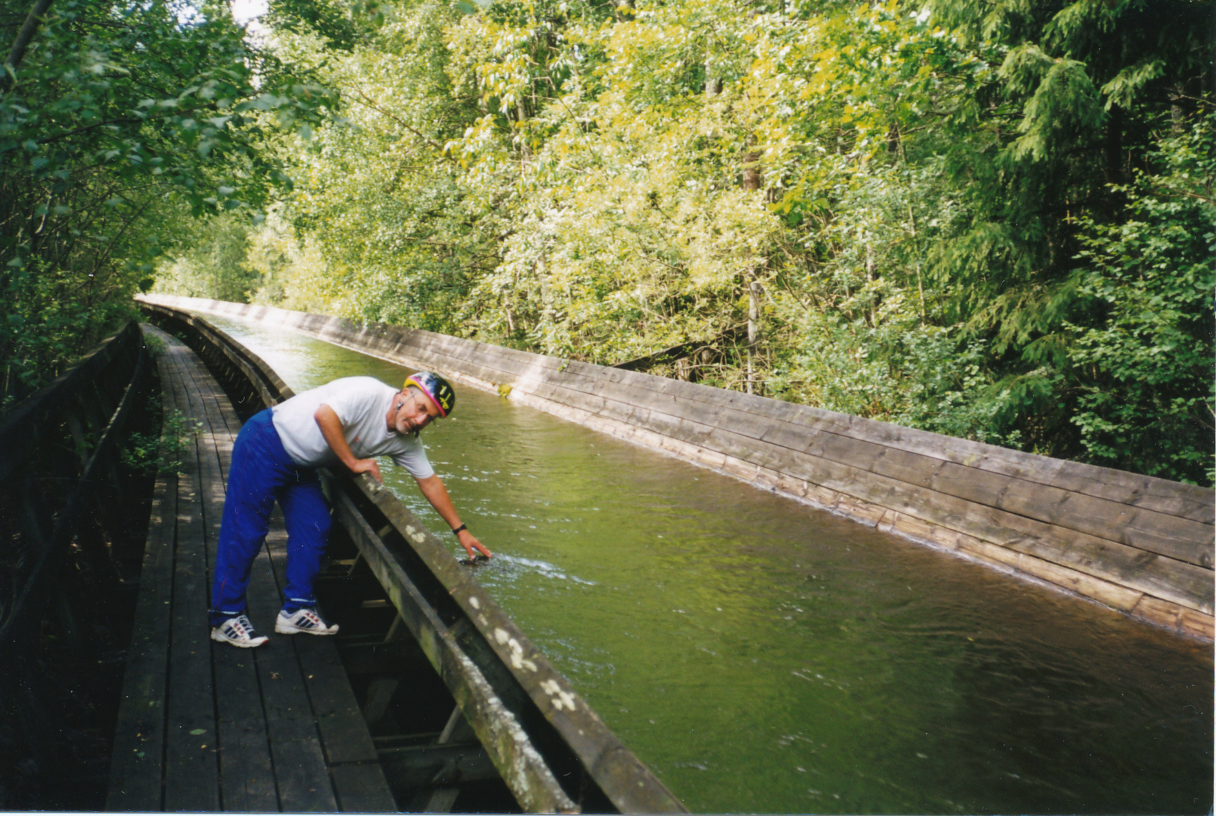 Flume, earlier used for timber floating from the river Dalälven to the saw and paper industry in the coast of Gästrikland in Sweden. Nowadays used as fresh water provision to the paper industry.